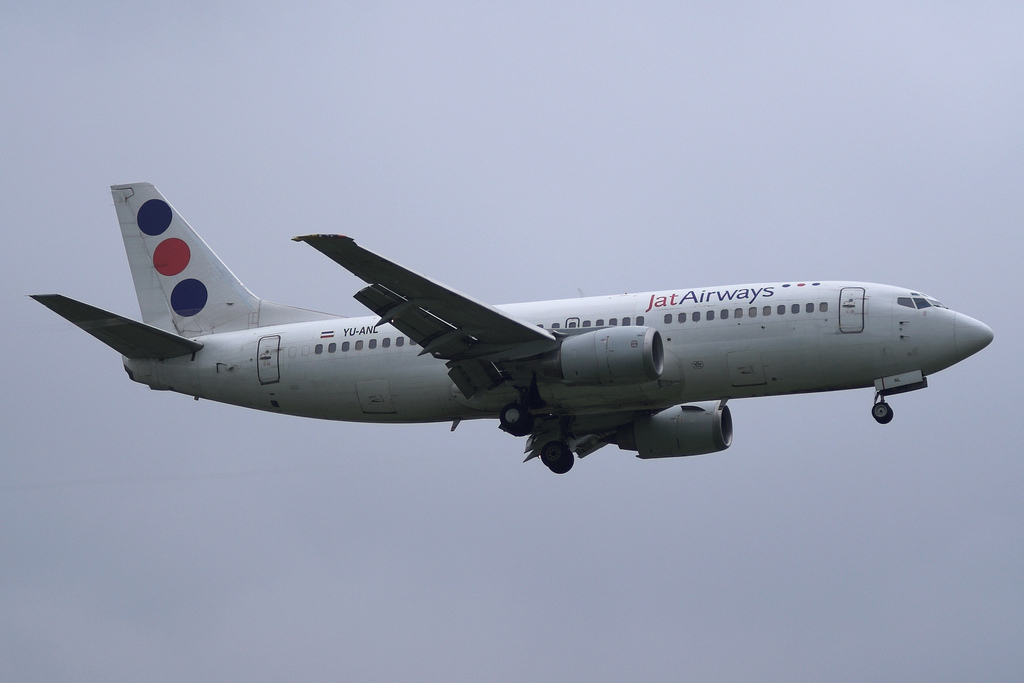 JAT Airways Boeing 737-300 YU-ANL